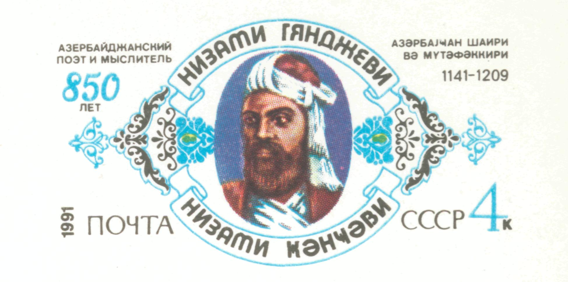 Preprinted (original) postage stamp of the Soviet Union, 850th anniversary of Nezami, 1991. Detail of a postcard of the Soviet Union (postal stationery).